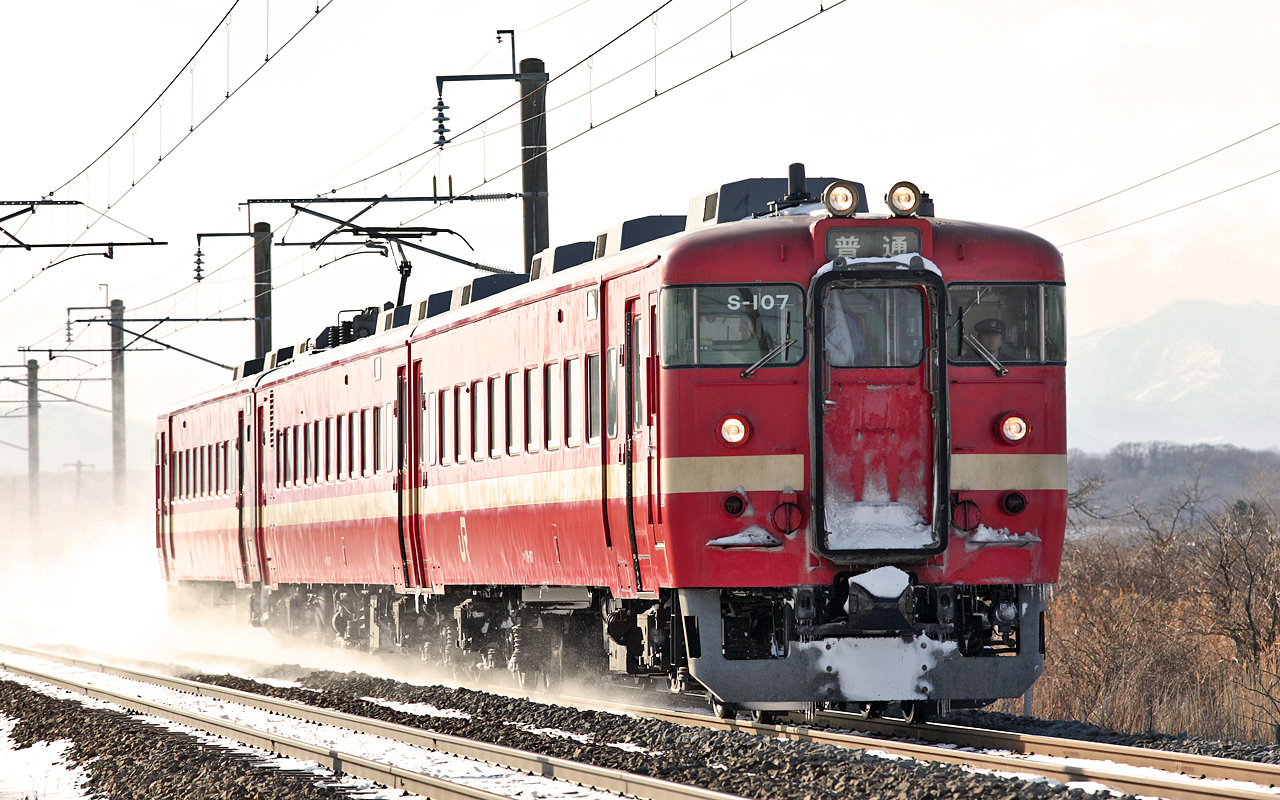 JR Hokkaido's JNR 711 Series EMU on Muroran Main Line between Shadai and Nishikioka